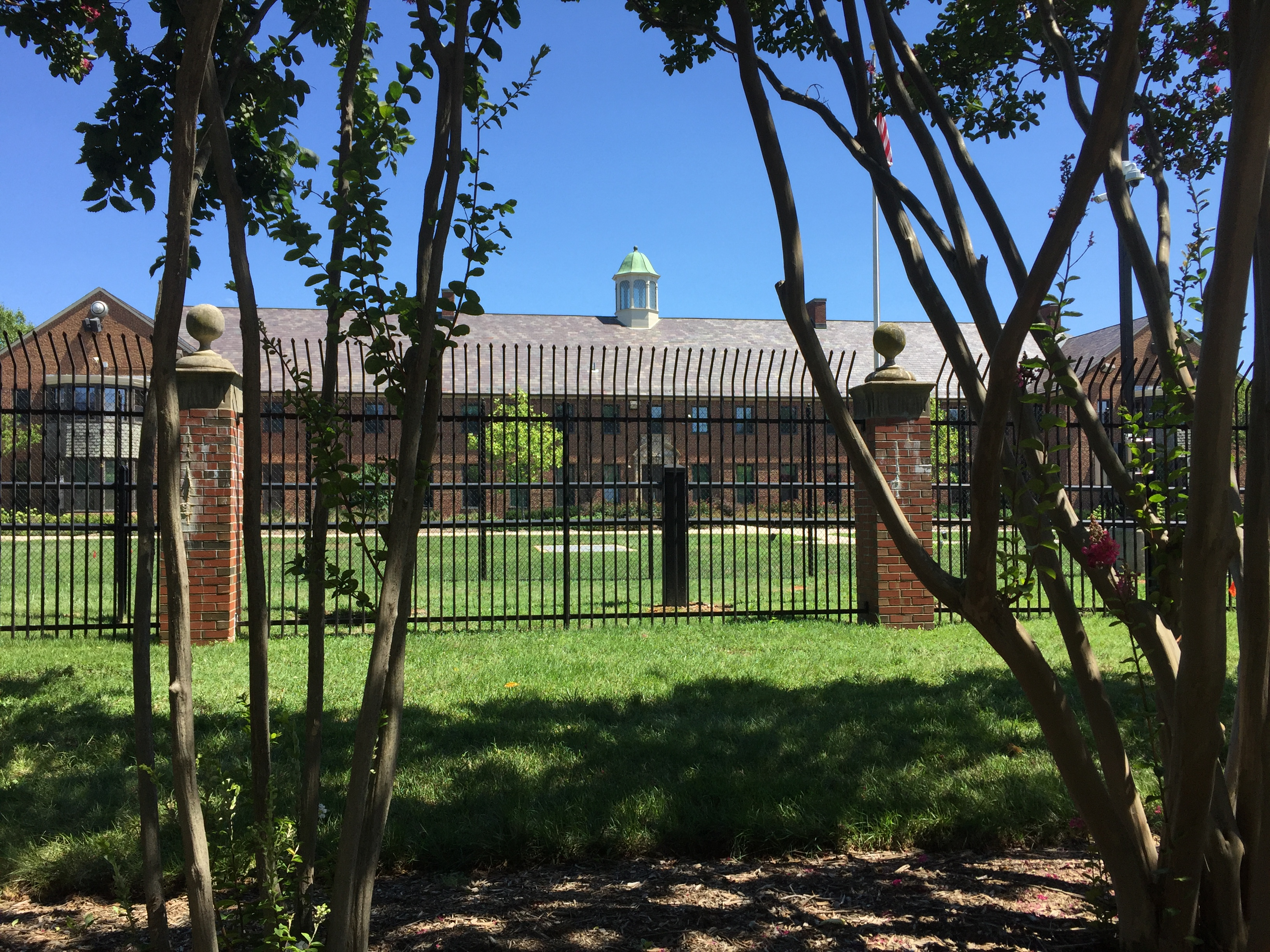 The Nebraska Avenue Complex, headquarters of the United States Department of Homeland Security in Washington, D.C. in 2017